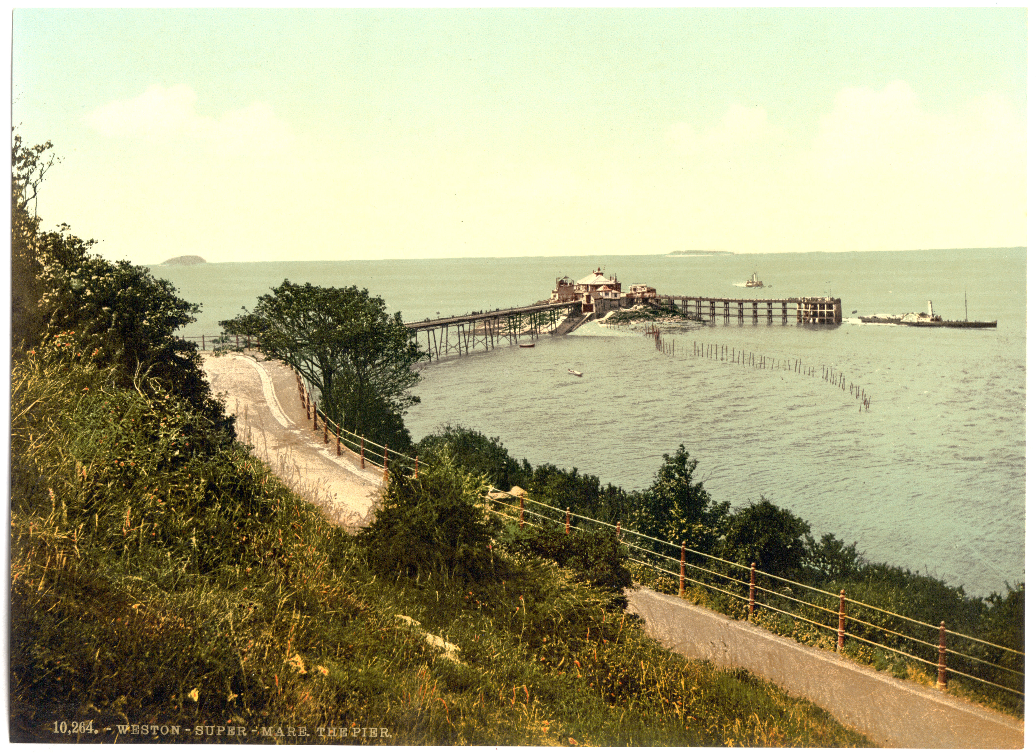 Photochrom of Birnbeck Pier.